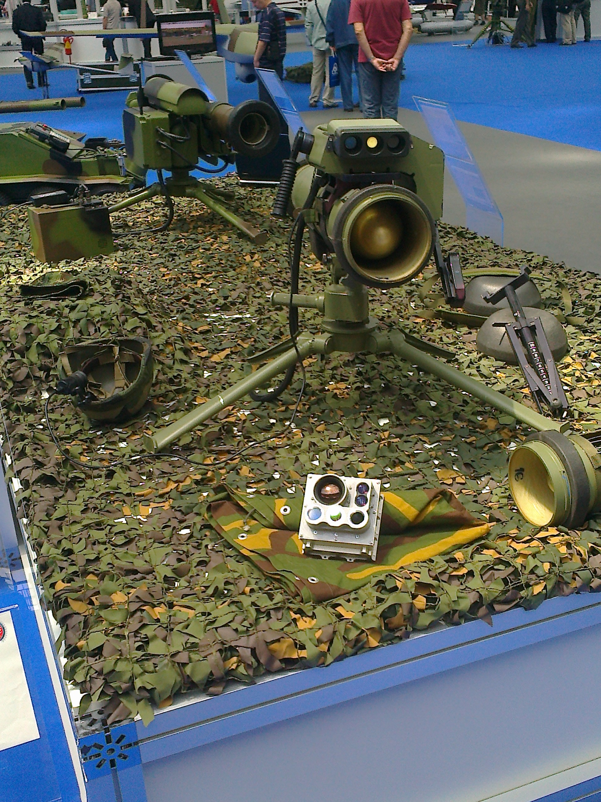 Bumbar ATGM at Partner 2013